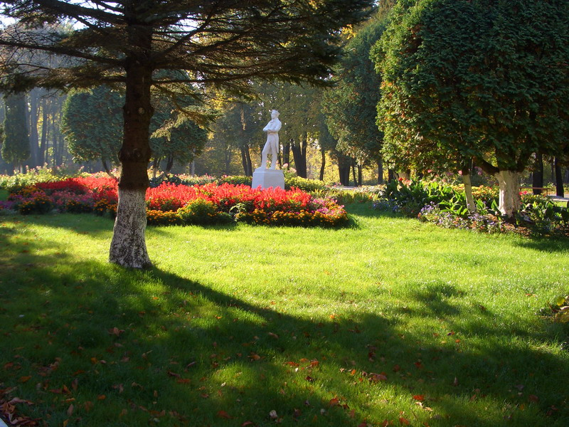 Park of Kokino, Briansk region, Russia